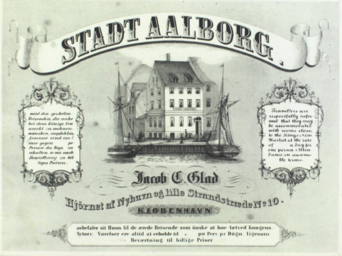 Advertisement for Stadt Aalborg at Nyhavn 19 in Copenhagen, Denmark